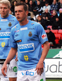 Gefle IF player Jens Portin.